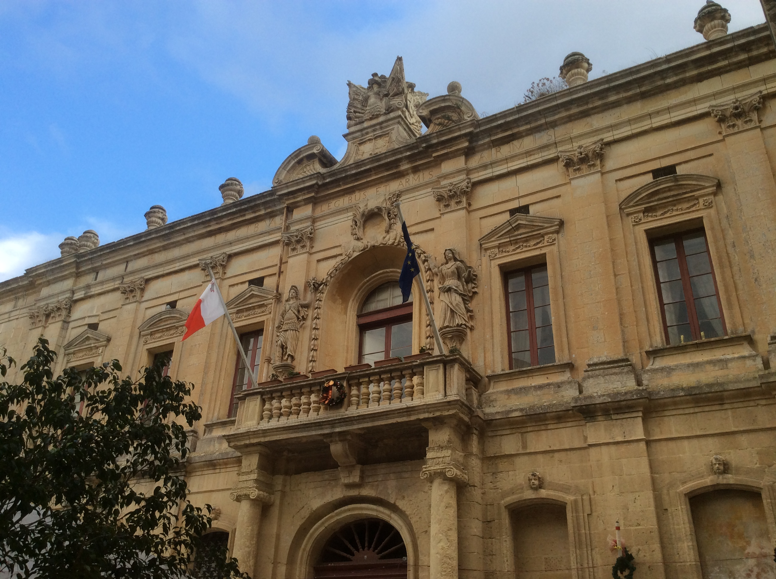 Corte Capitanali Mdina, Malta